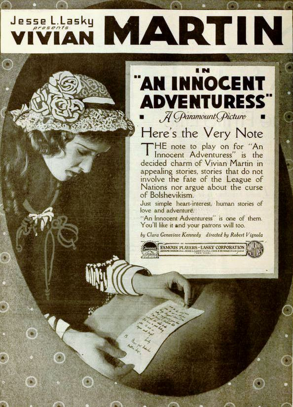 Ad for the American comedy film An Innocent Adventuress (1919) with Vivian Martin, on page 1590 of the June 14, 1919 Moving Picture World.